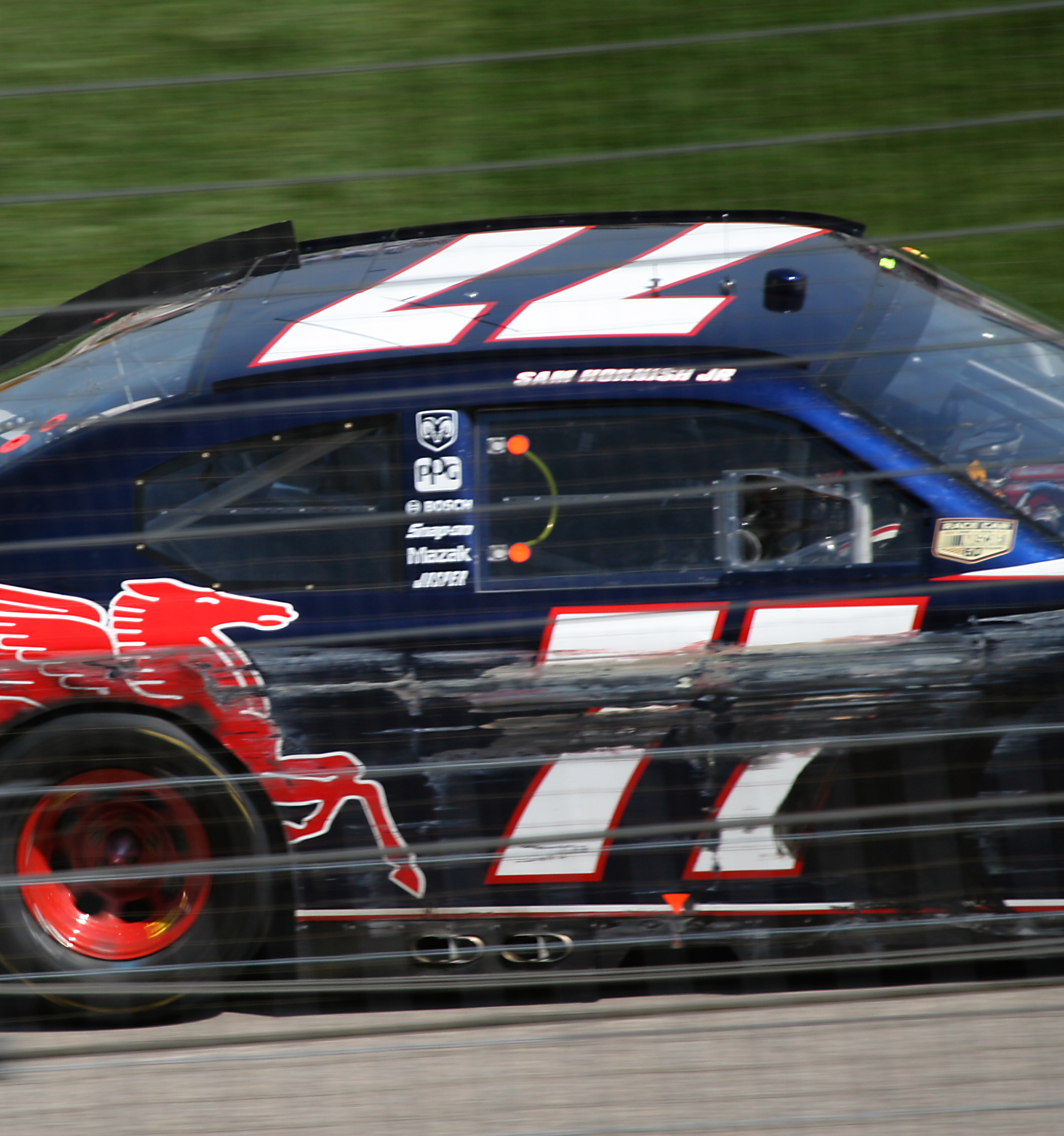 Rookie Stripes at Texas Motor Speedway (2008 Samsung 500).